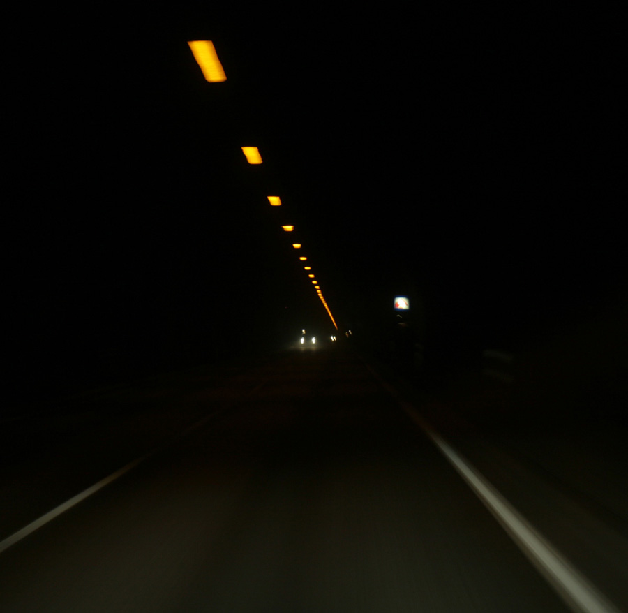 Middle of the Hvalfjörður tunnel, November 21 08:53 Iceland, November 2007 Photo by me user debivort (or friend, with permission given to upload and license freely).